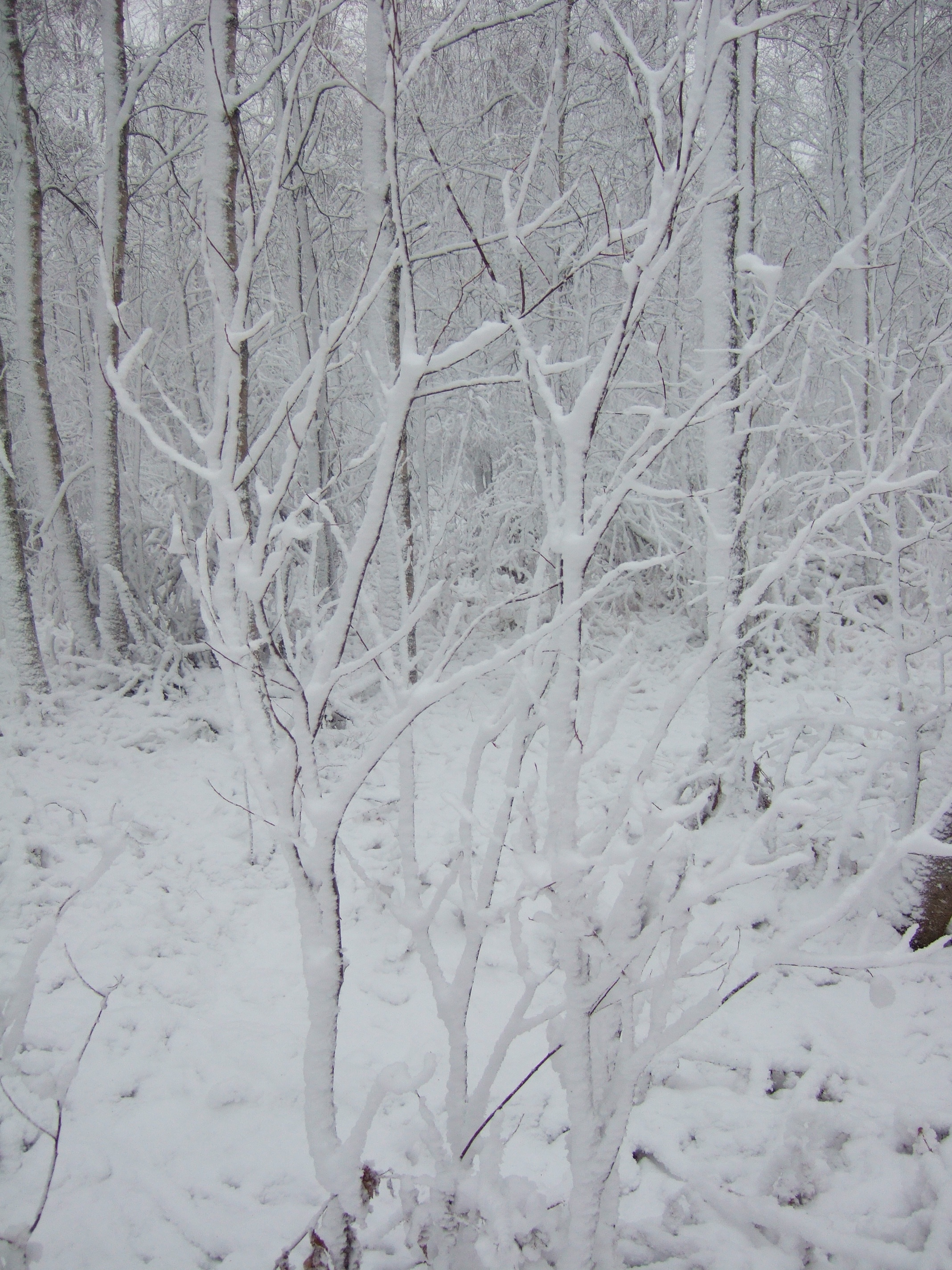 Small trees after heavy snowing.